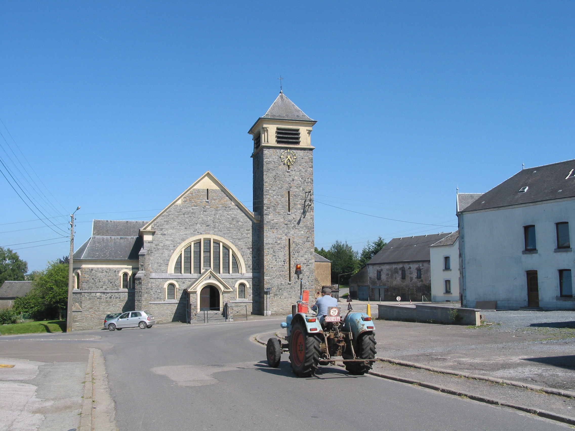 Vaux-sur-Sûre (Belgium), the main street with the church.